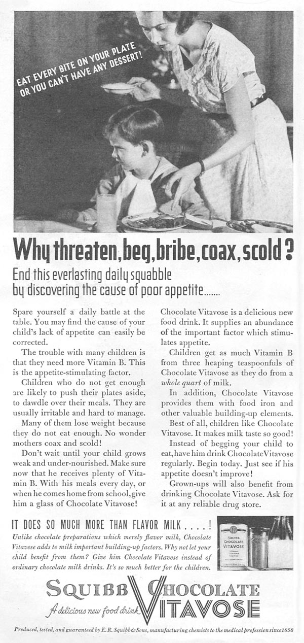 1932 advertisement for Squibb Chocolate Vitavose Milk Supplement Mix from E. R. Squibb & Sons. Out of the magazine Good Housekeeping.